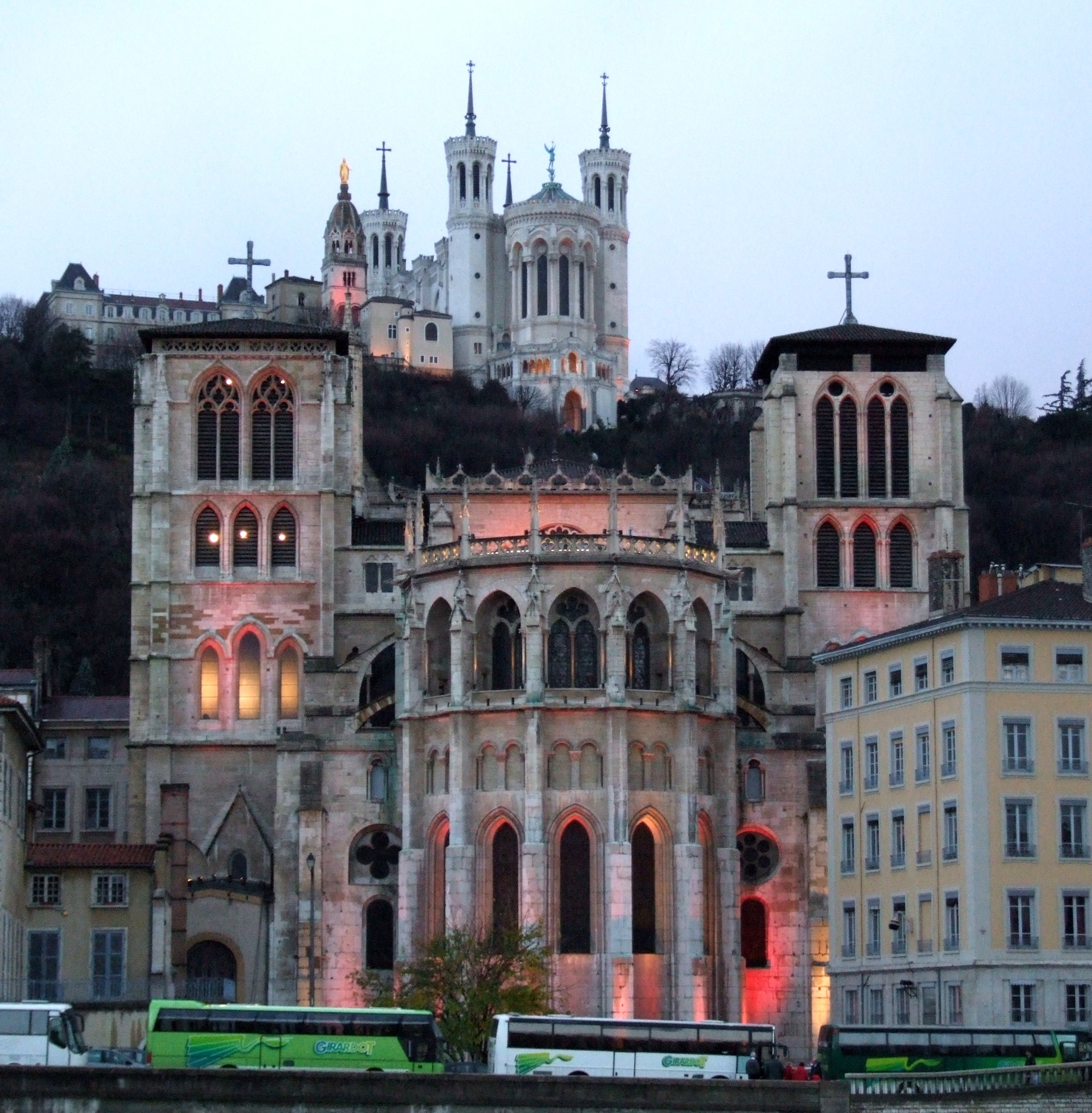 Lyon, FRANCE